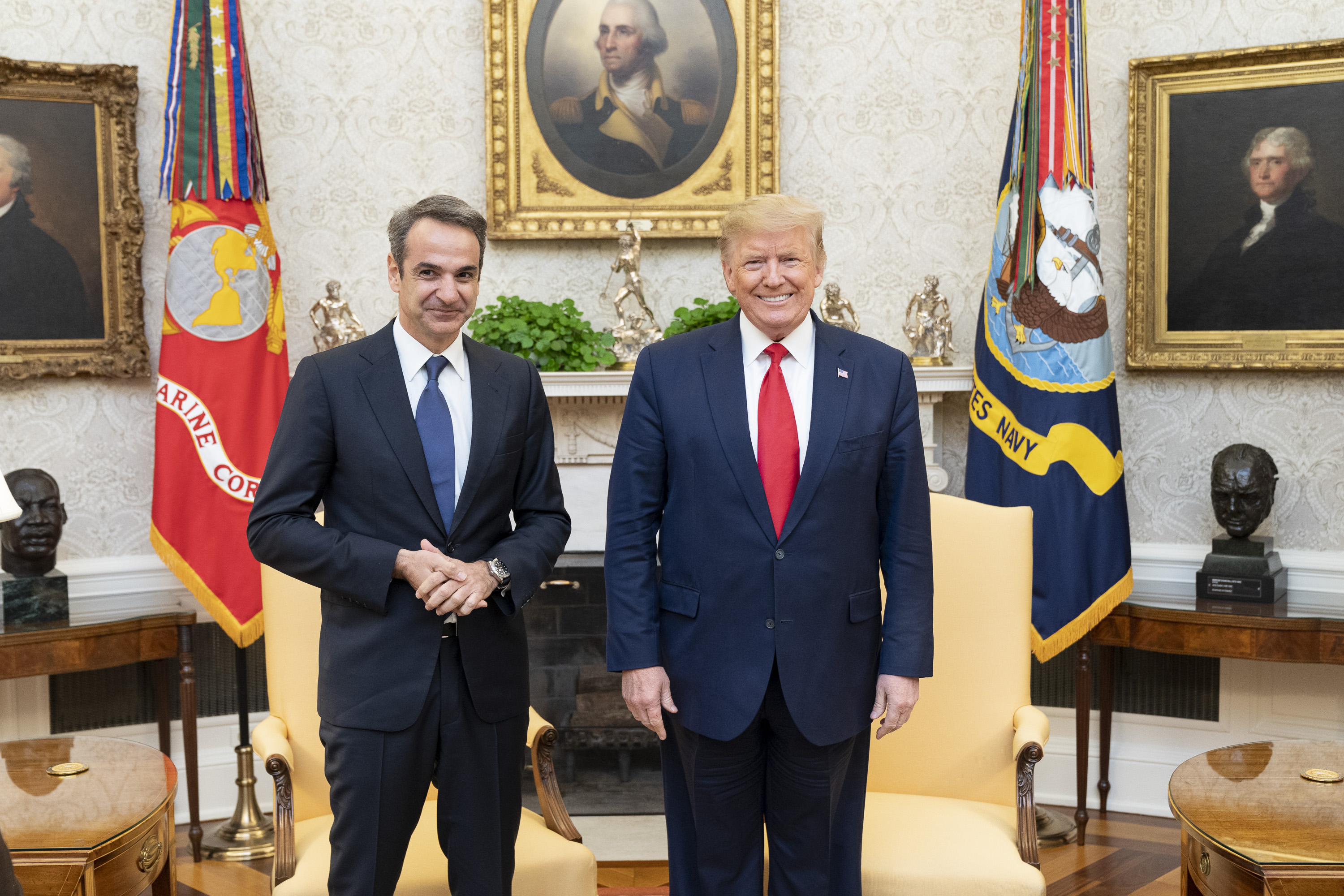 President Donald J. Trump welcomes Greek Prime Minister Kyriakos Mitsotakis Tuesday, Jan. 7, 2020 to the Oval Office of the White House. (Official White House Photo by Shealah Craighead)